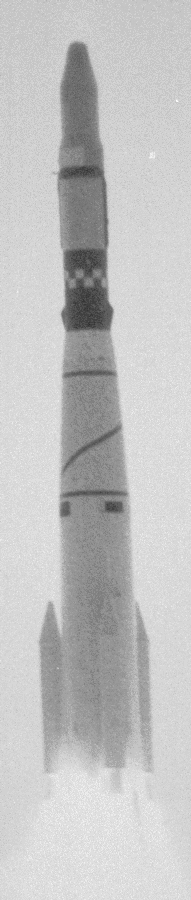 Launch of Thor SLV-2A Agena D rocket with Corona 83 satellite